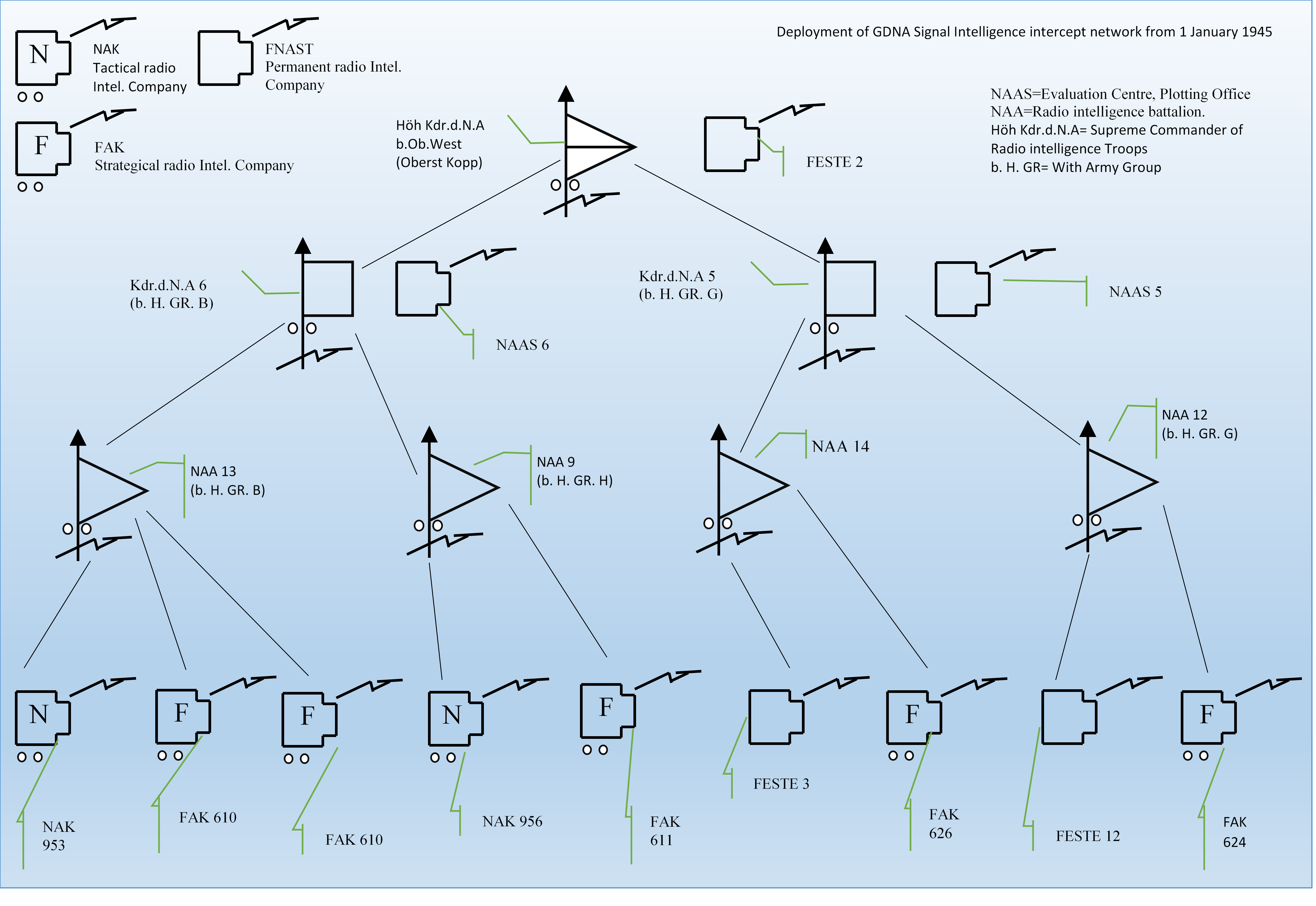 Diagram of german GDNA signal intelligence intercept network in the Russian Front in 1st January 1945. It's shows the layout of different intercept unit types and the Order of Battle hierarchy. Signal Intelligence Regiment (KONA) article describes each type.